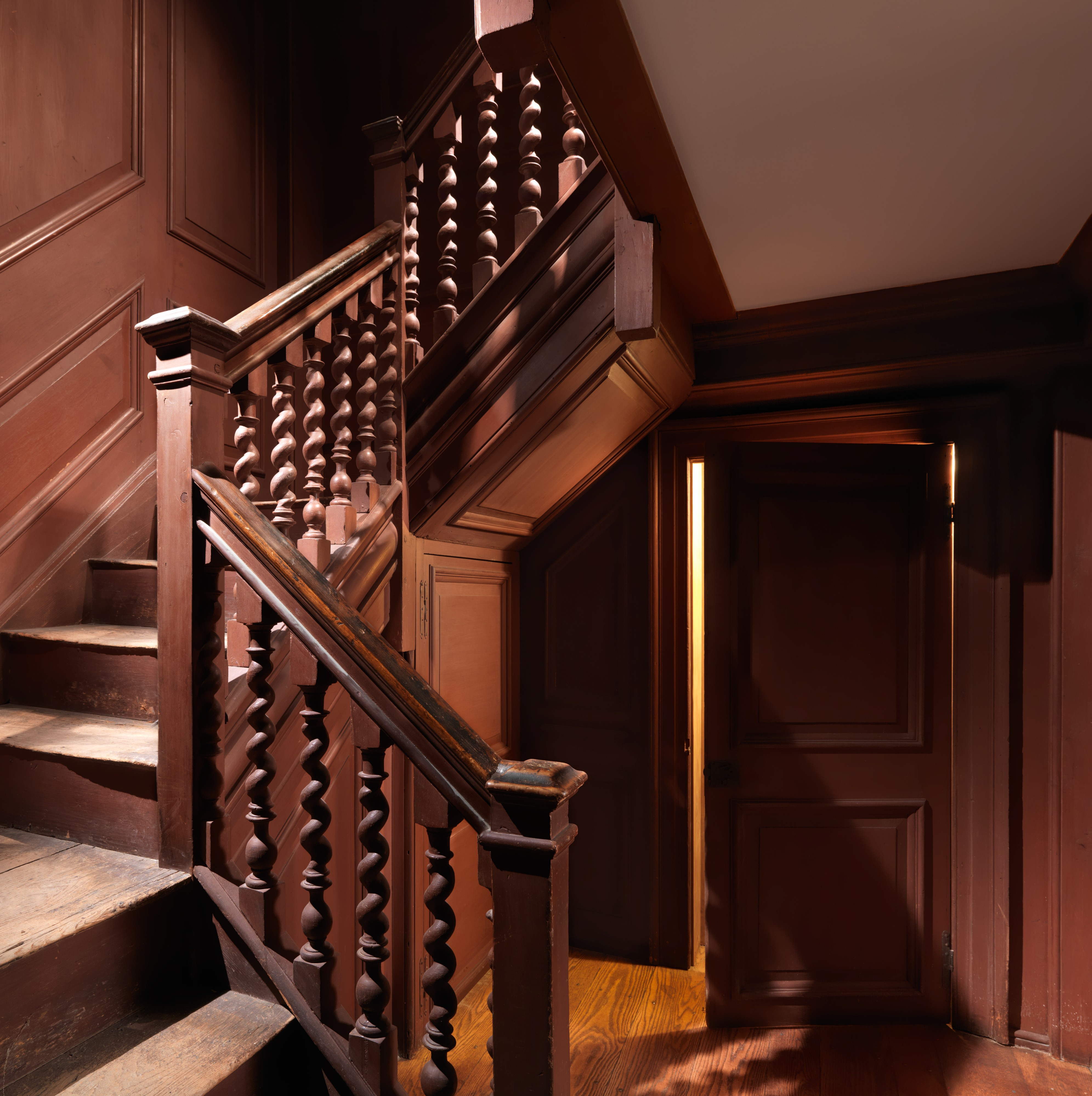 American; Wentworth house; Architecture